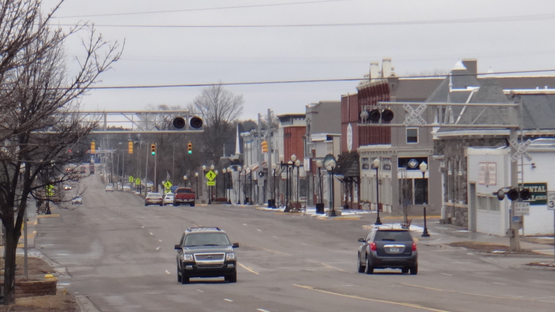 Downtown West Branch, Michigan.